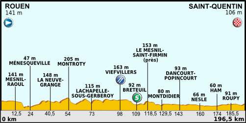 Profil of the 5th stage of the Tour de France 2012